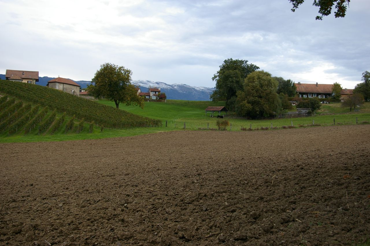 Geneva countryland's landscape at Avusy